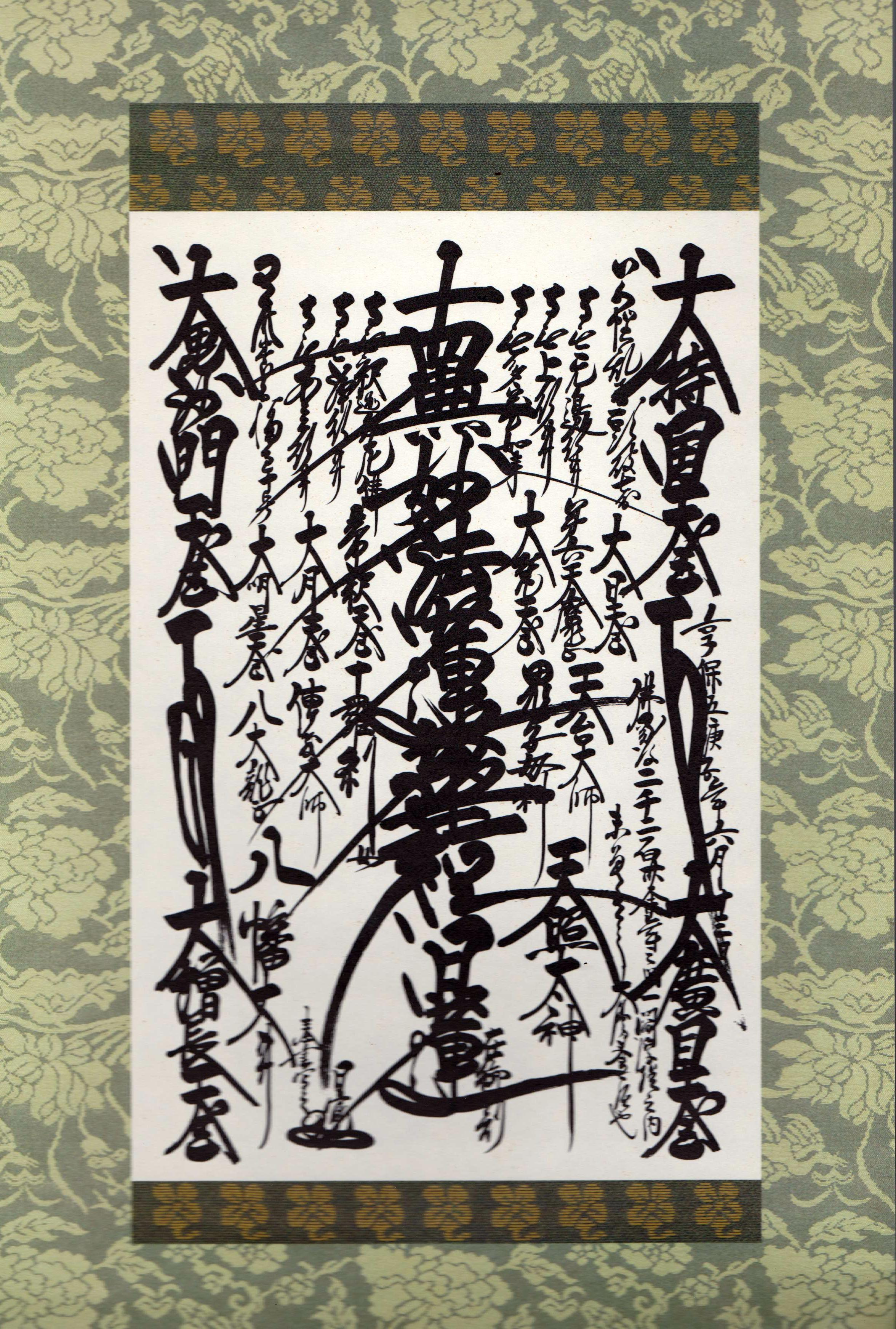 SGI Gohonzon